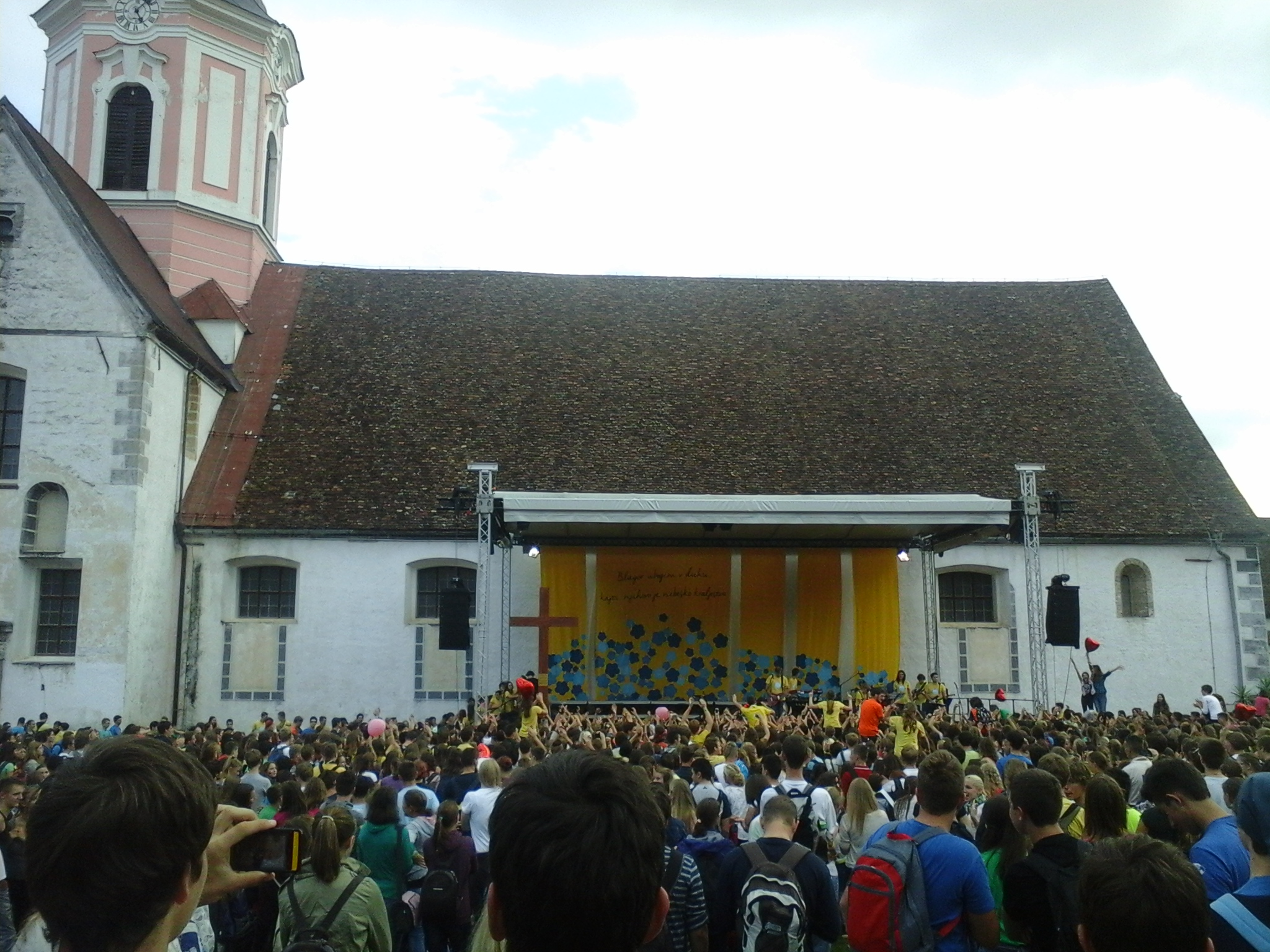 Photo from Festival Stična of the Youth 2014.